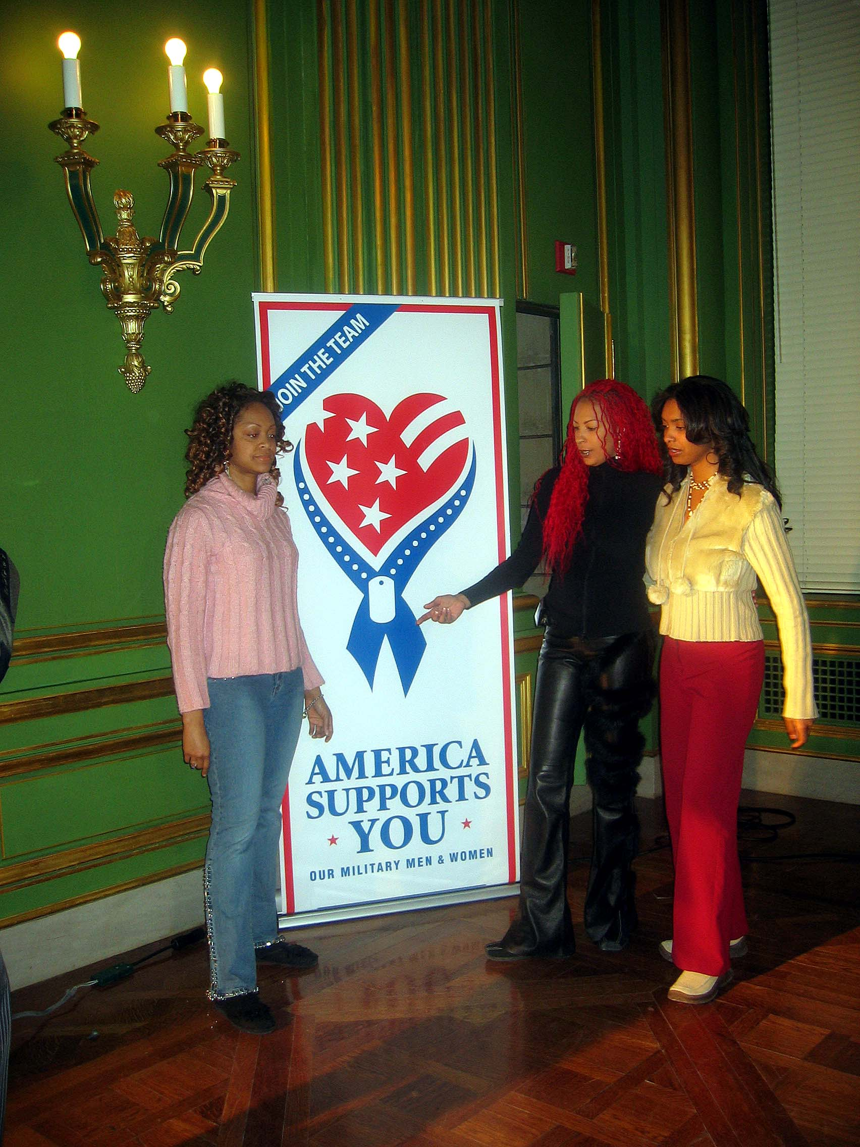 Band members of Chic, who performed at the Heroes Red, White and Blue Inaugural Ball on Jan. 20, videotape a public service announcement to be aired on the Pentagon Channel reminding the troops that "America Supports You."